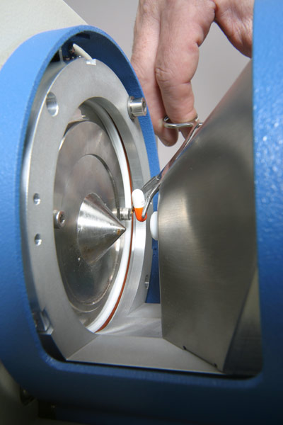 Photograph of a DART ion source on a JEOL AccuTOF mass spectrometer. (photo from JEOL USA, Inc.)